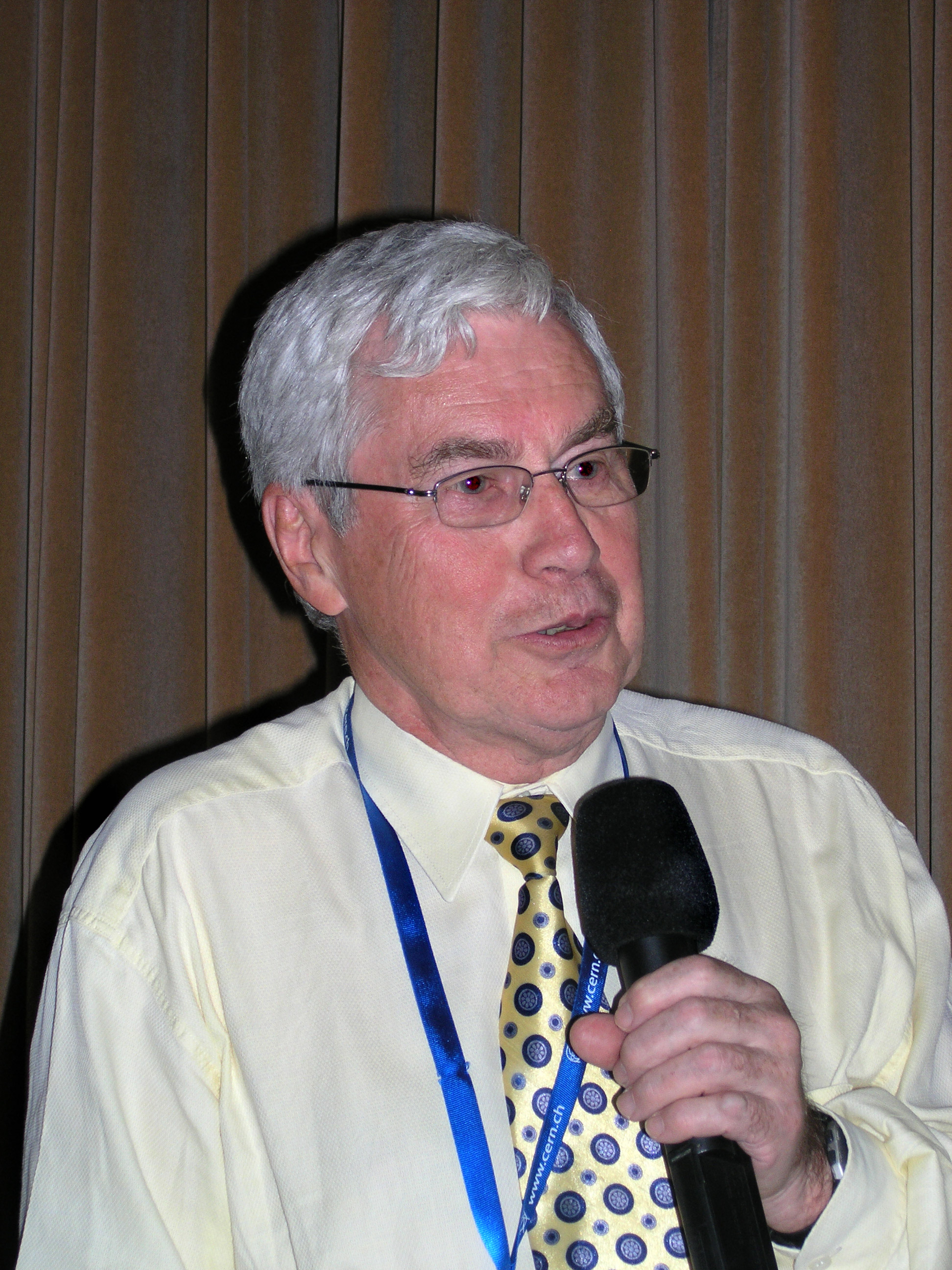 Czech astronomer Jiří Grygar